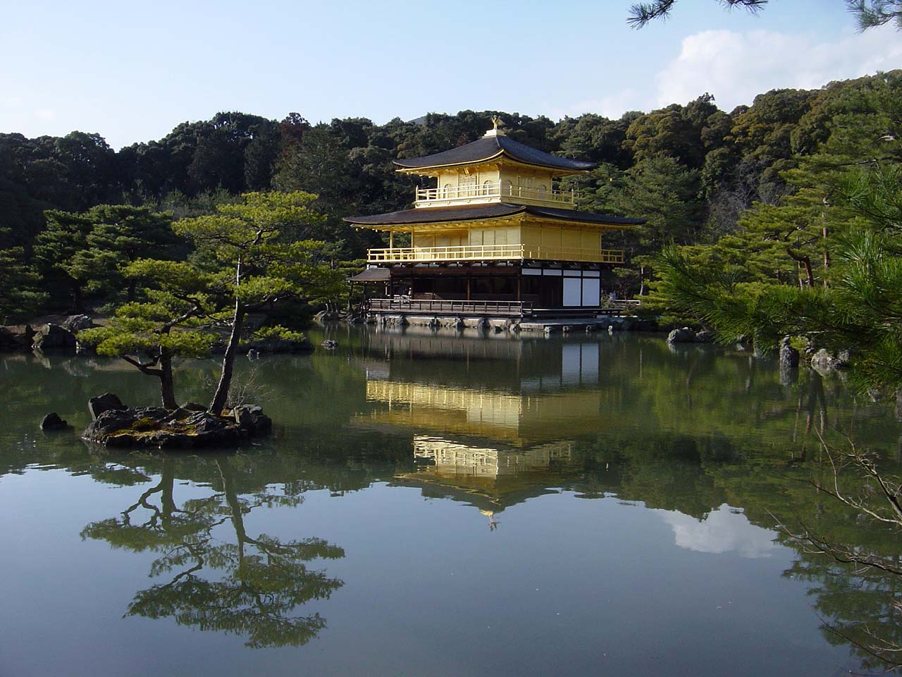 Golden Pavilion at Kinkaku-ji